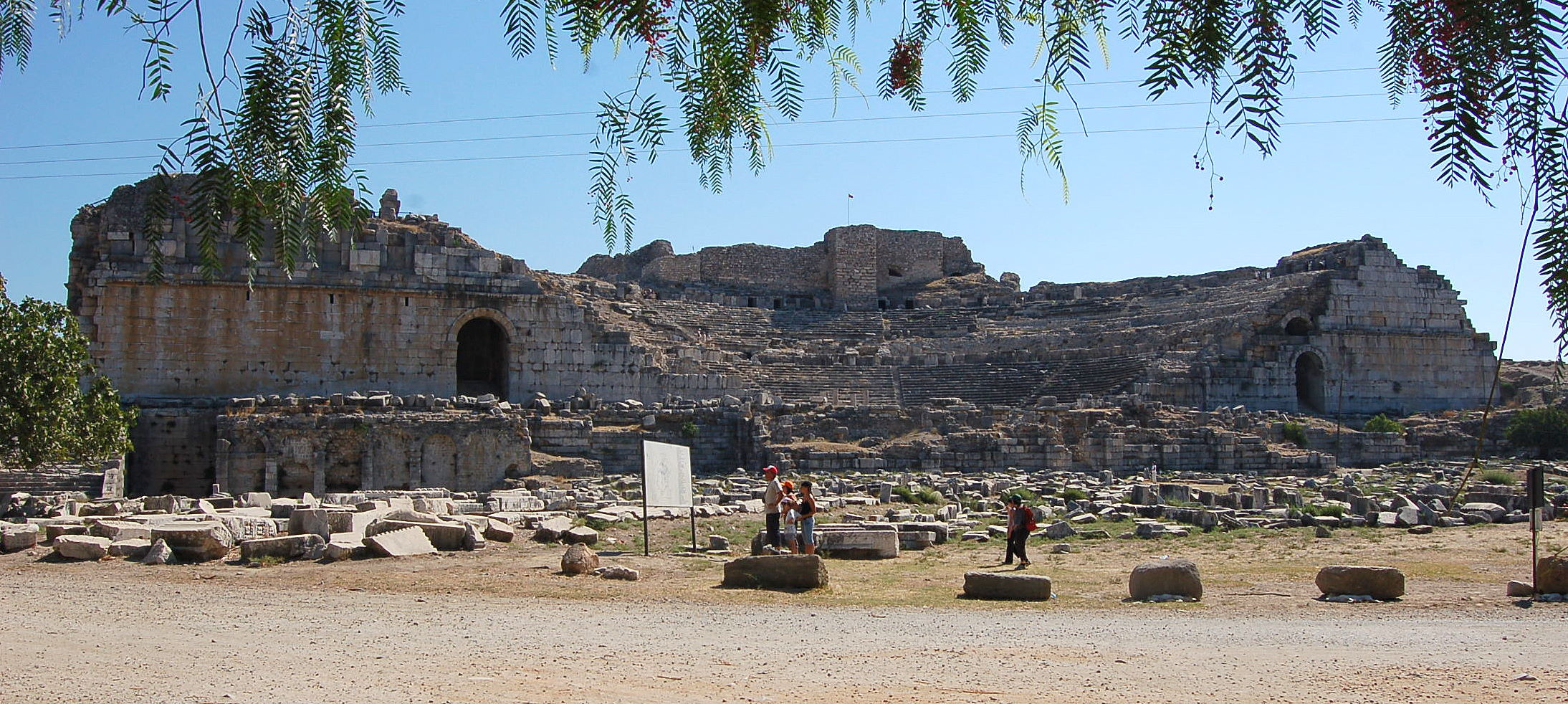 Outside view of Miletus theatre; on top the Byzantine fortress